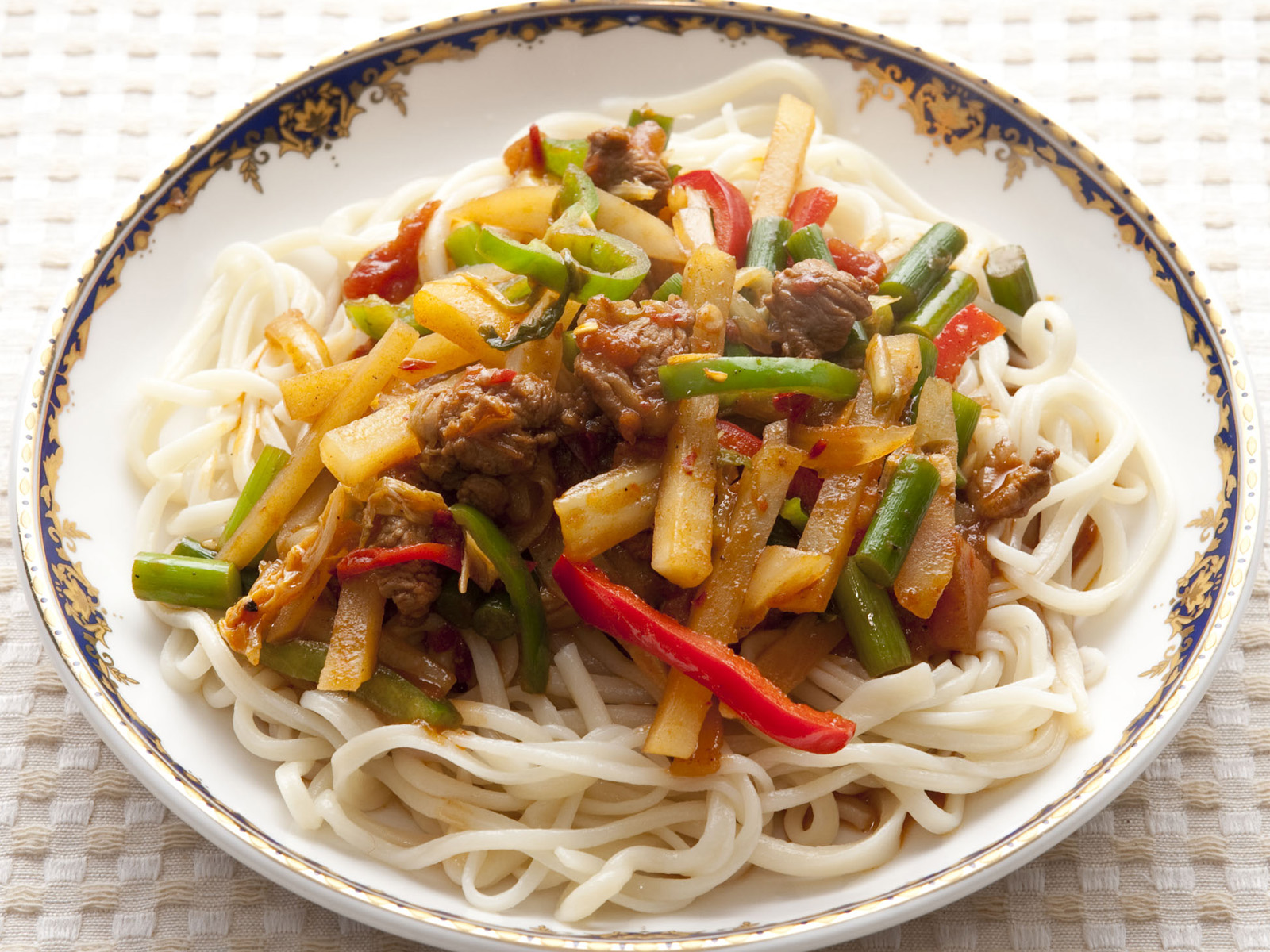 Lagman picture taken in "Silkroad Tarim", Tokyo, JAPAN.